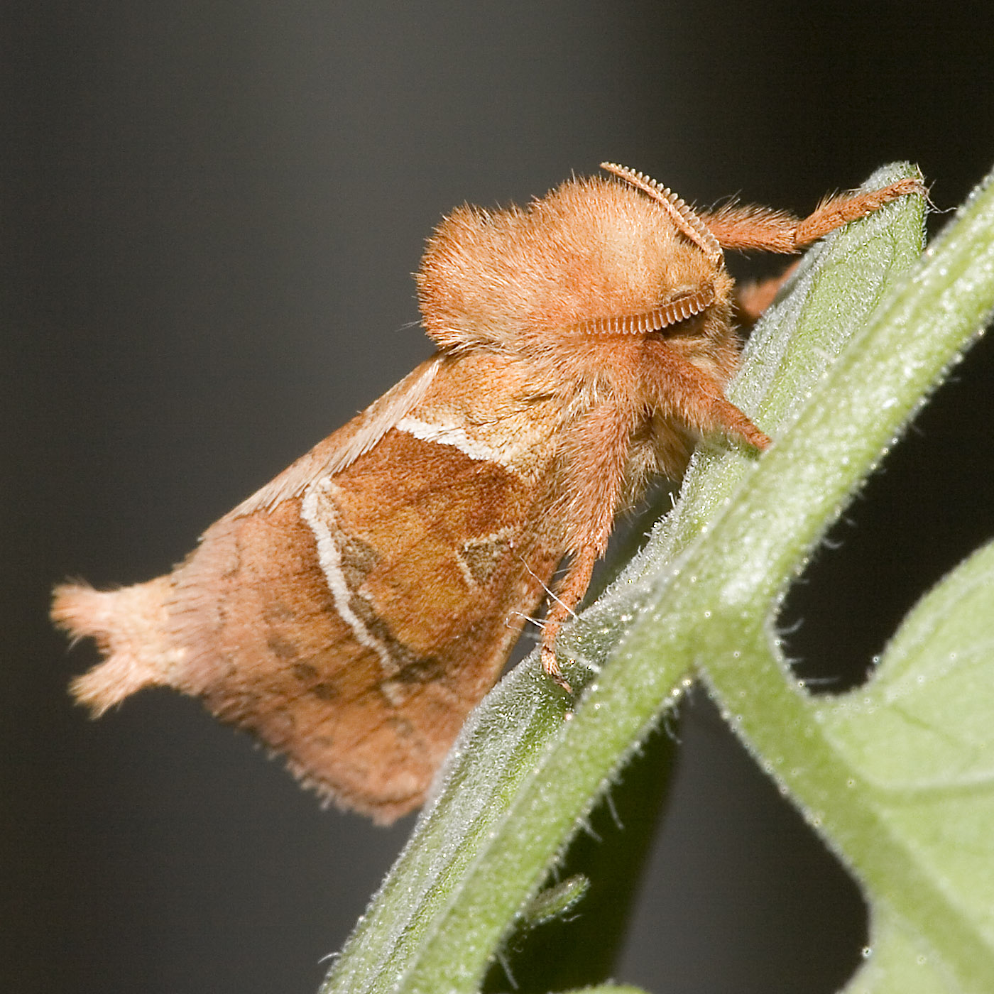 Orange Swift (Triodia sylvina)